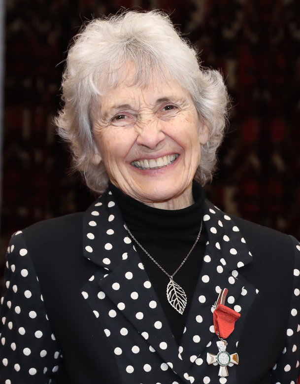 Gillian Bibby, after her investiture as MNZM, for services to music and music education, at Government House, Wellington, on 7 July 2020.